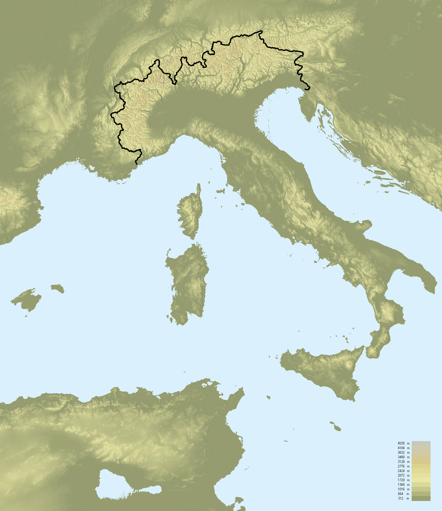 Topographic map of Italy with Italian borders